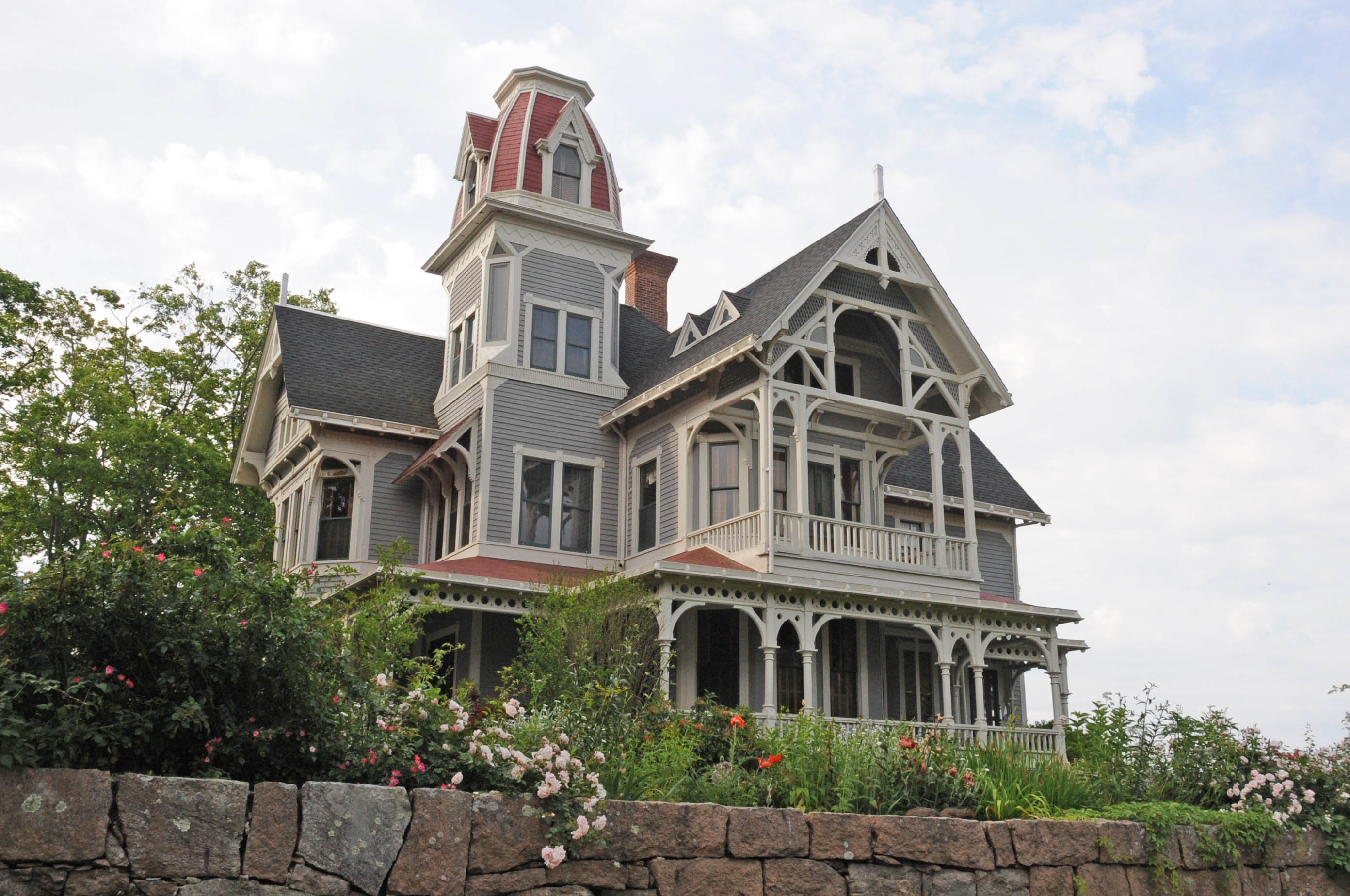 LATE VICTORIAN BUILDING BUILT IN 1882 FOR ISAAC C. LEWIS, A MANUFACTURER OF SILVER PRODUCTS. IT IS A MIXTURE OF SECOND EMPIRE, GOTHIC REVIVAL AND STICK STYLE.